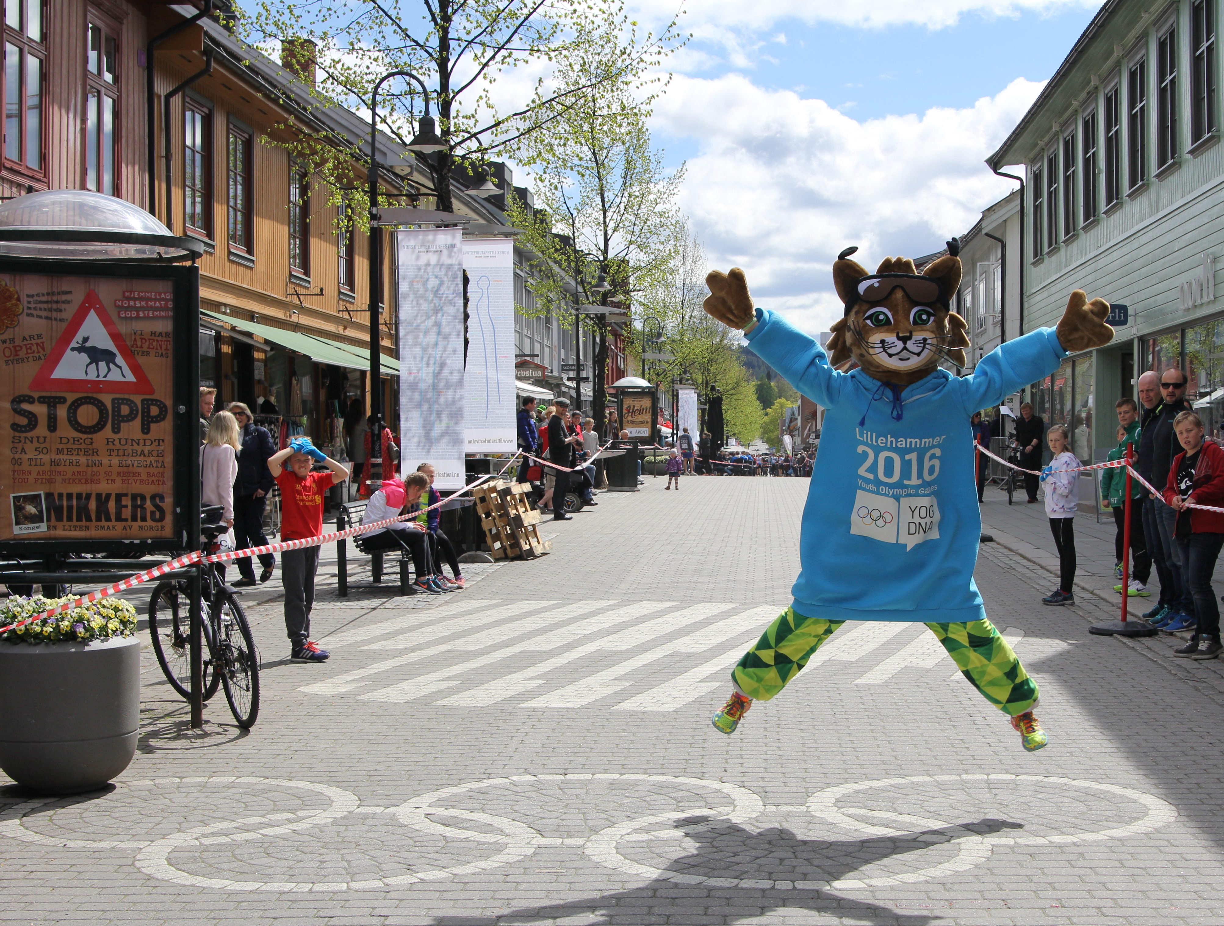 Our friend Sjogg playing around in downtown Lillehammer. Photo: Magne Vikøren